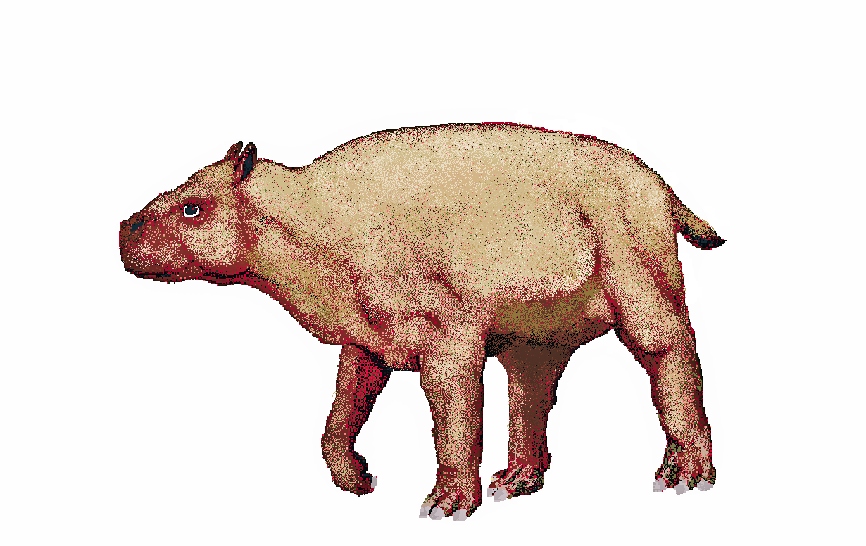 Sacarrittia Leontinidae Meridiungulata